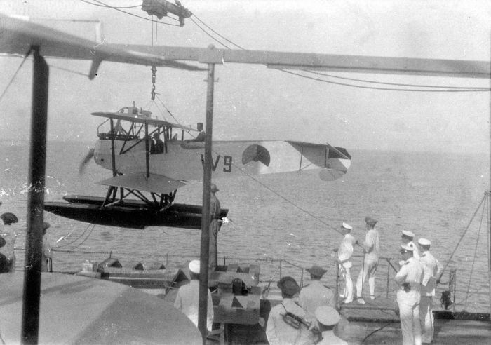 A floatplane Van Berkel W-A (a copy of Hansa-Brandenburg W.12) aboard the Dutch cruiser Java